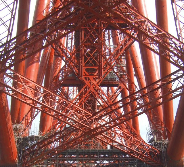 The guts of the Forth Bridge The inner tensions and compressions of the Forth Bridge.